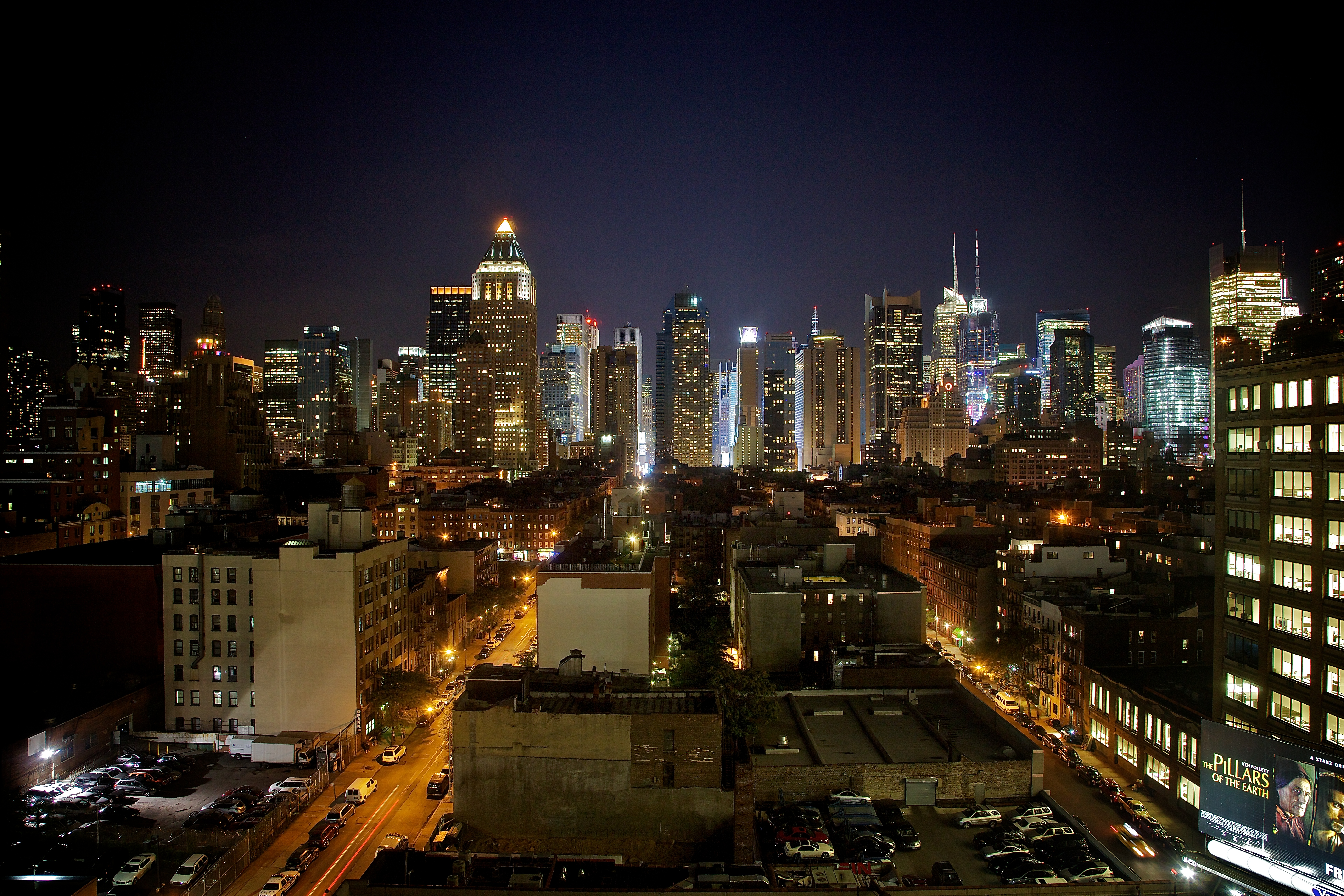 View of New York City from Hell's Kitchen